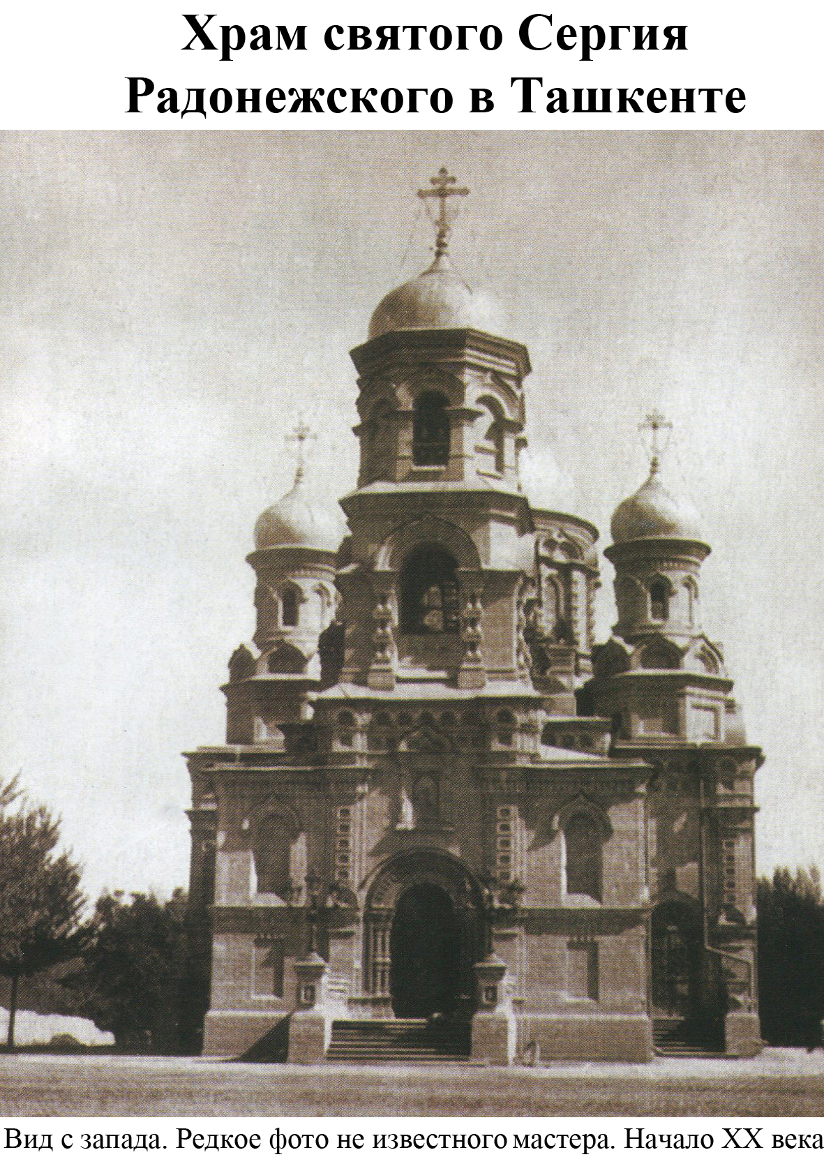 Church St. Sergiy Radonezhckogo in Tashkent. Type in the West. Rarity photo izvestnogo not master. Home XX century.